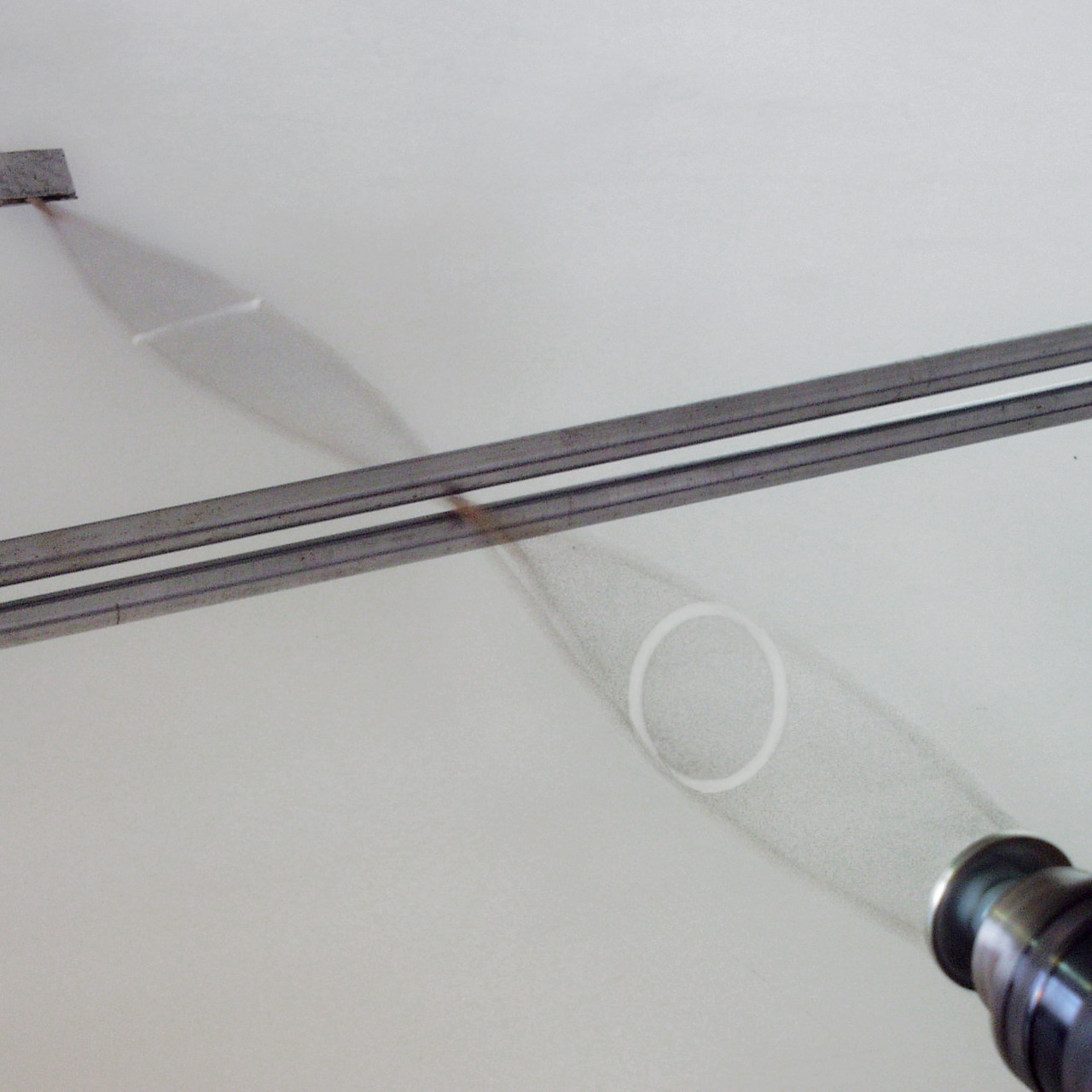 Polarization. (Circularly polarized wave → linearly polarized wave.)